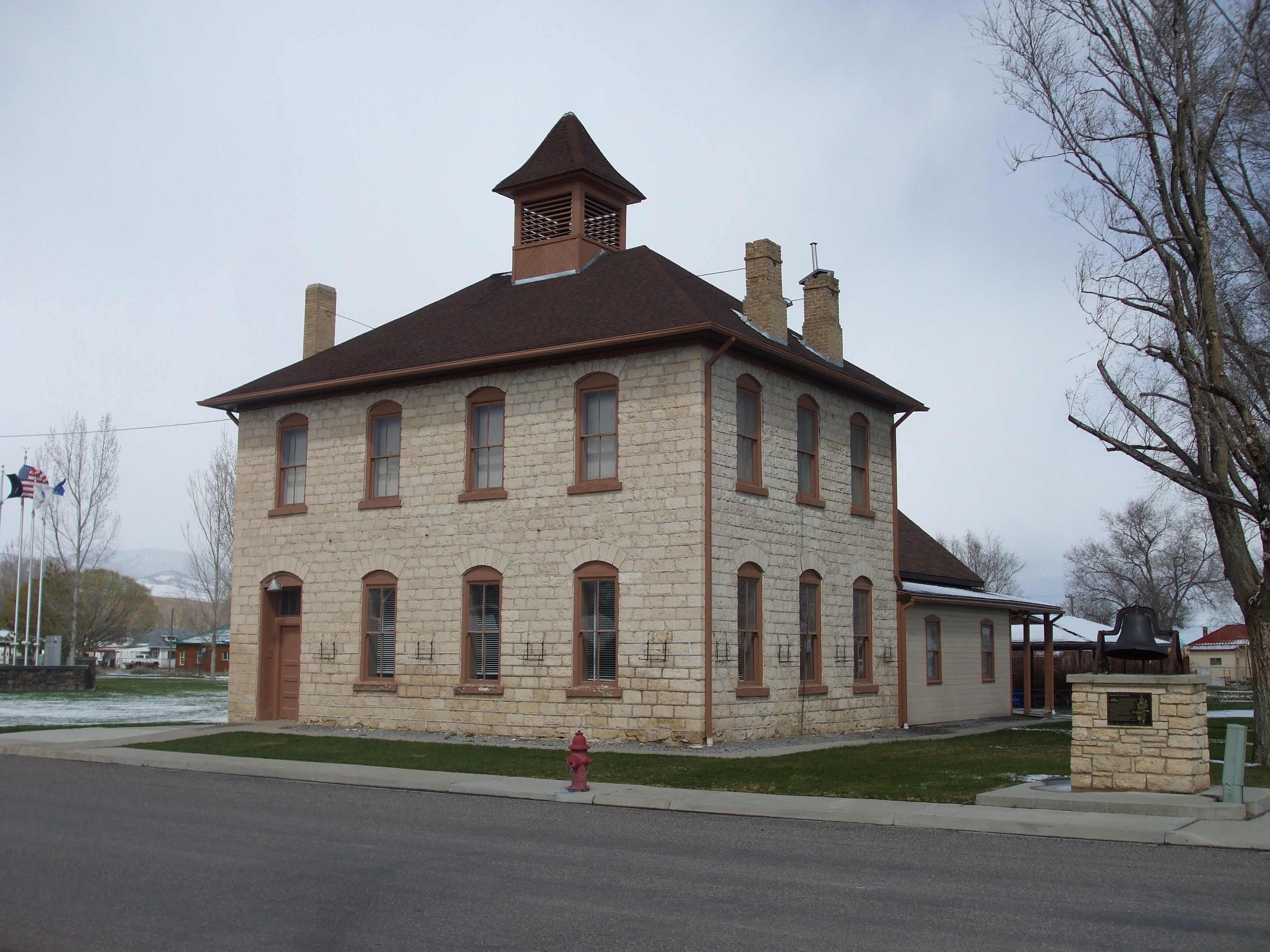 The historic Redmond Town Hall, in Redmond, Utah, United States.